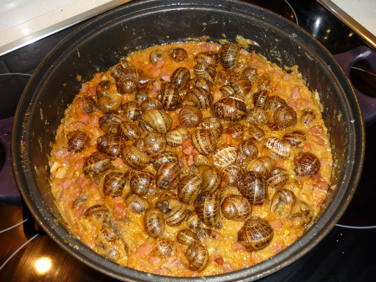 snails in their sauce, typic cooking in the Basque Country